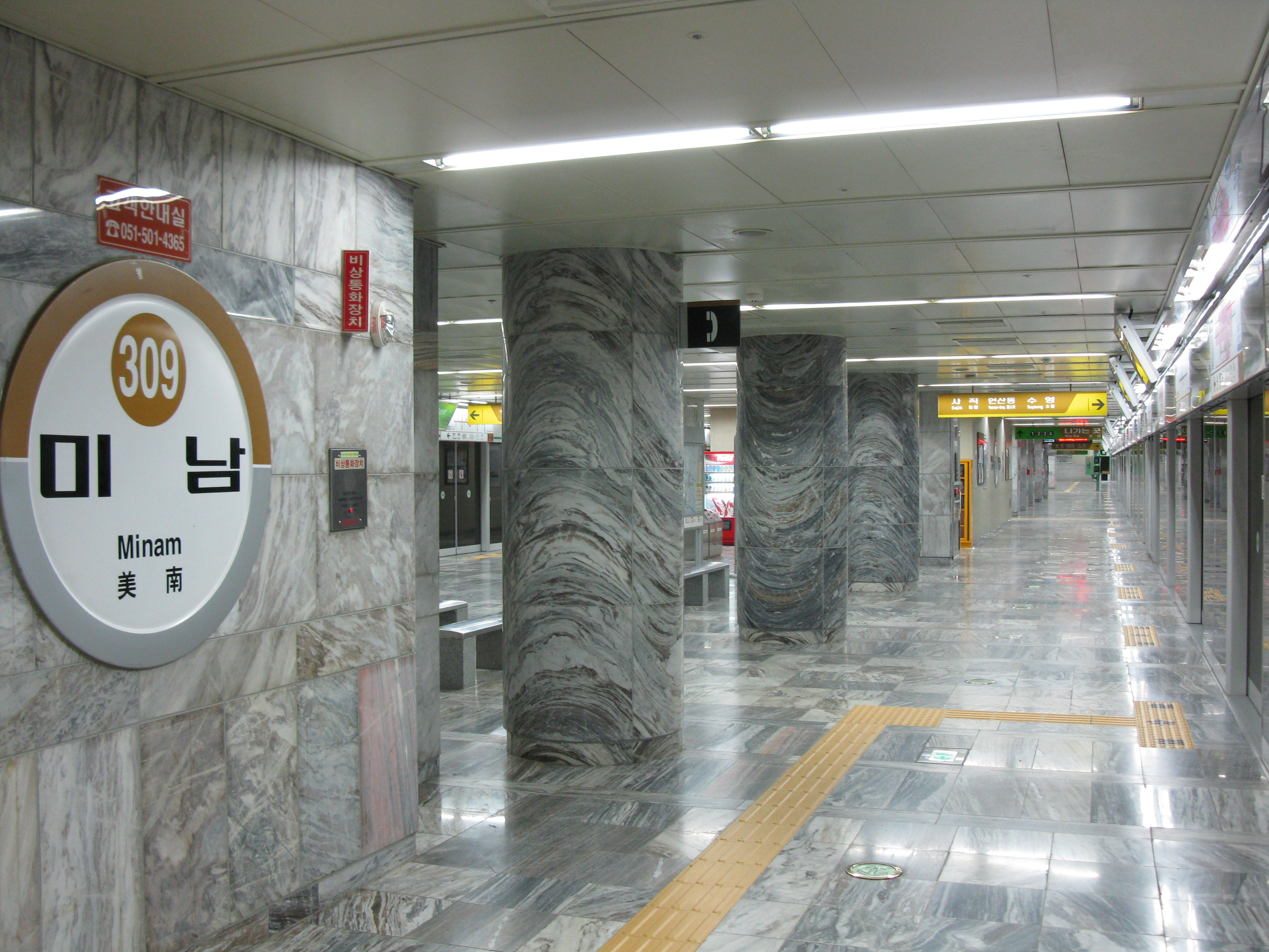 A platform of Minam Station, Busan Subway Line 3